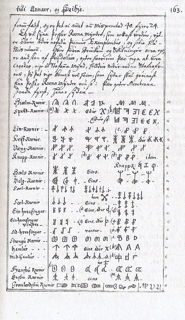 Page of Jón Ólafsson's manuscript AM. 413 fol (1732-1752).